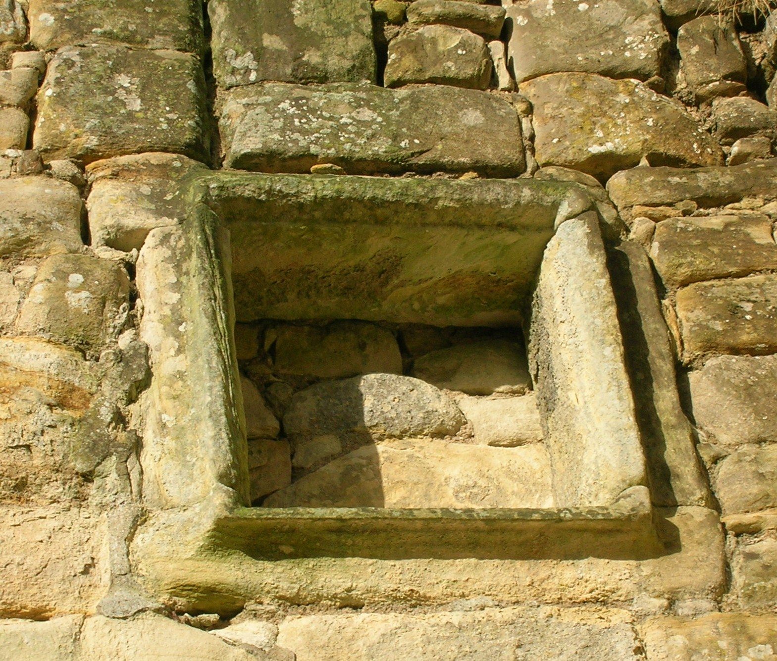 A blank picturesque or armorial panel above the entrance above two grotesques and a carved head. Monkcastle, Dalry, Ayrshire, Scotland.